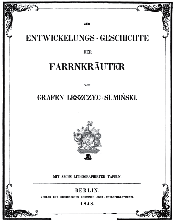 Title page of Zur Entwickelungs-Geschichte der Farrnkräuter (1848)